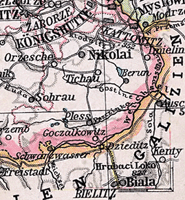 Detail from a map of Silesia.